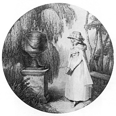 Illustration of Charlotte at Werther's tomb (from The Sorrows of Young Werther by Goethe)